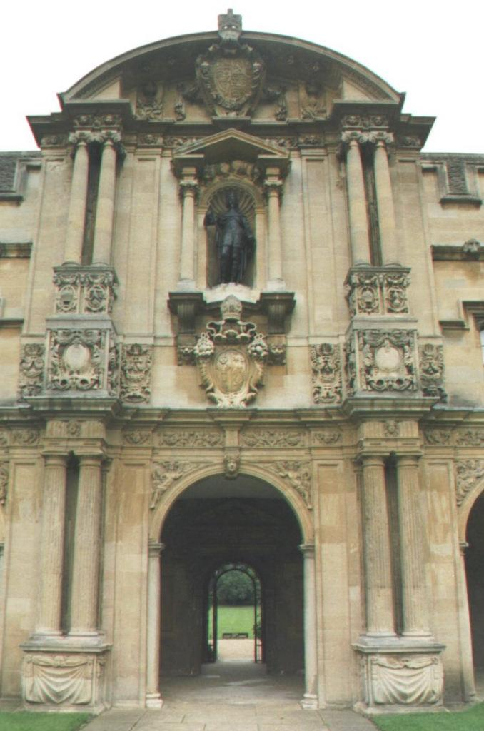 The entrance to the college gardens, Canterbury Quad, St John's College, Oxford. Taken by, and copyright, GWO. Released under GFDL.